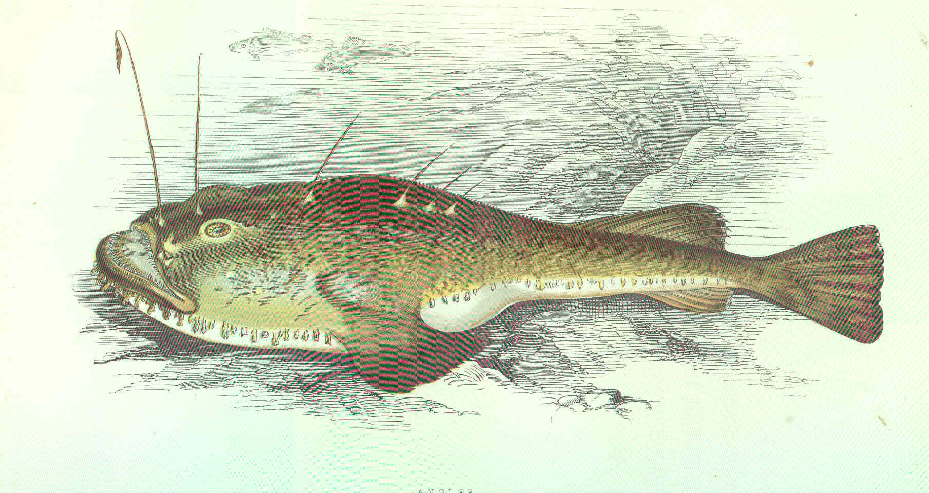 Angler Toadfish Frogfish Fishing Frog Sea Devil Rana piscatris Rana marina Lophius piscatorius Lophie Baudroie Baudroie Pecheresse Subject: Anglerfishes, Antennariidae Tag: Fish